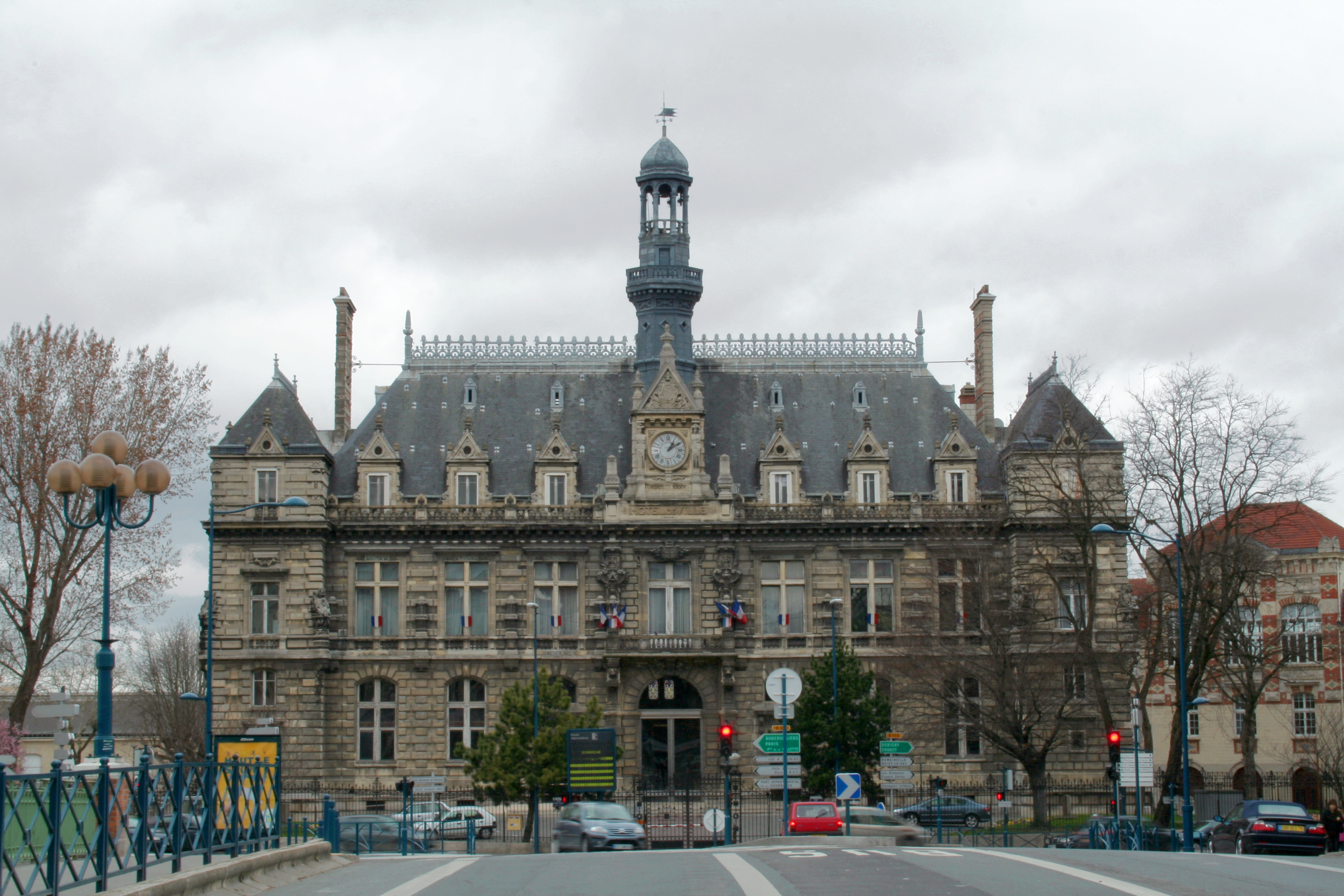 Town hall of Pantin (Seine-Saint-Denis, France).